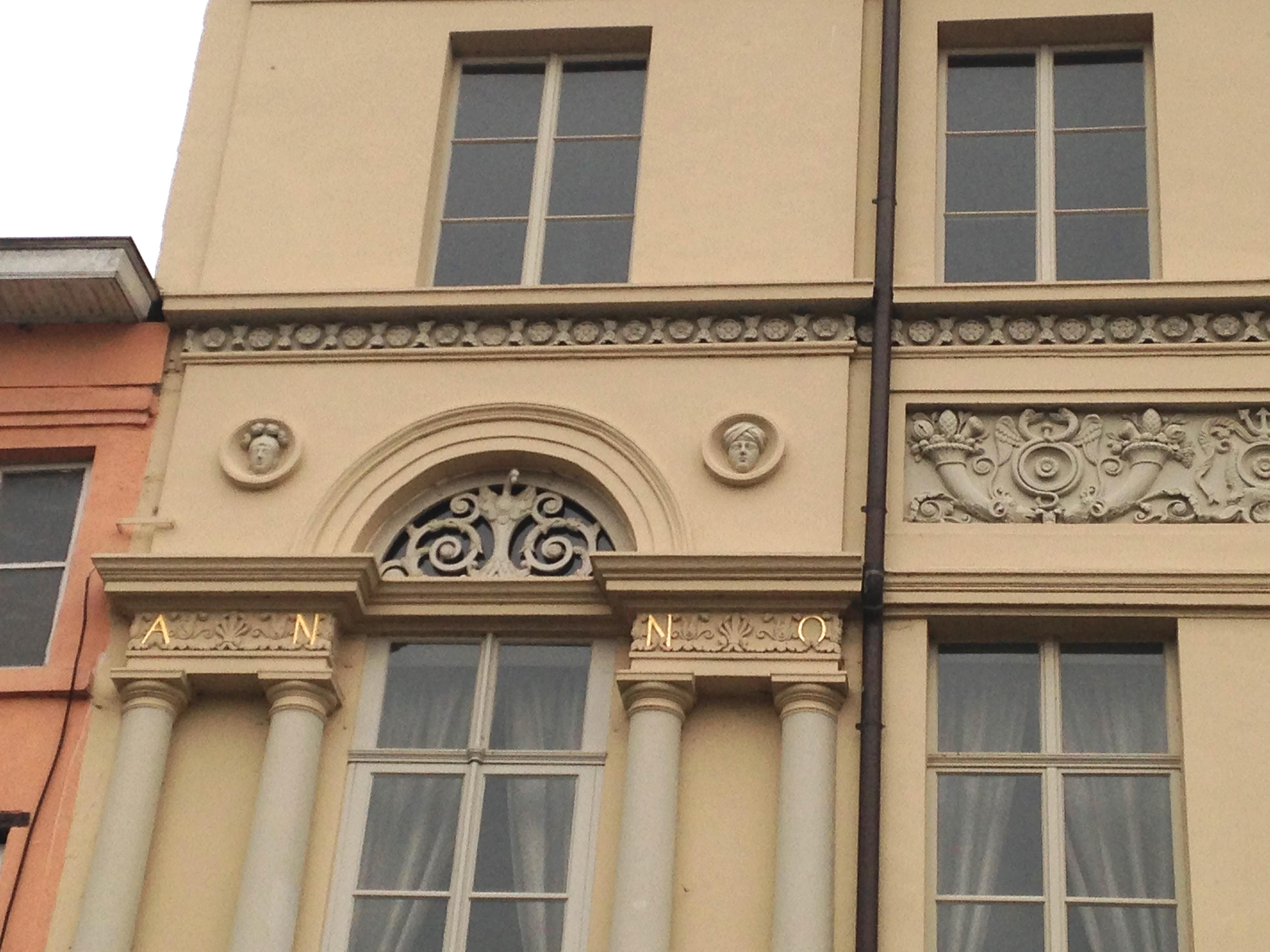 An early 19th-Century building in Empire style, by architect Louis Roelandt, on the market square in Geraardsbergen, Belgium.